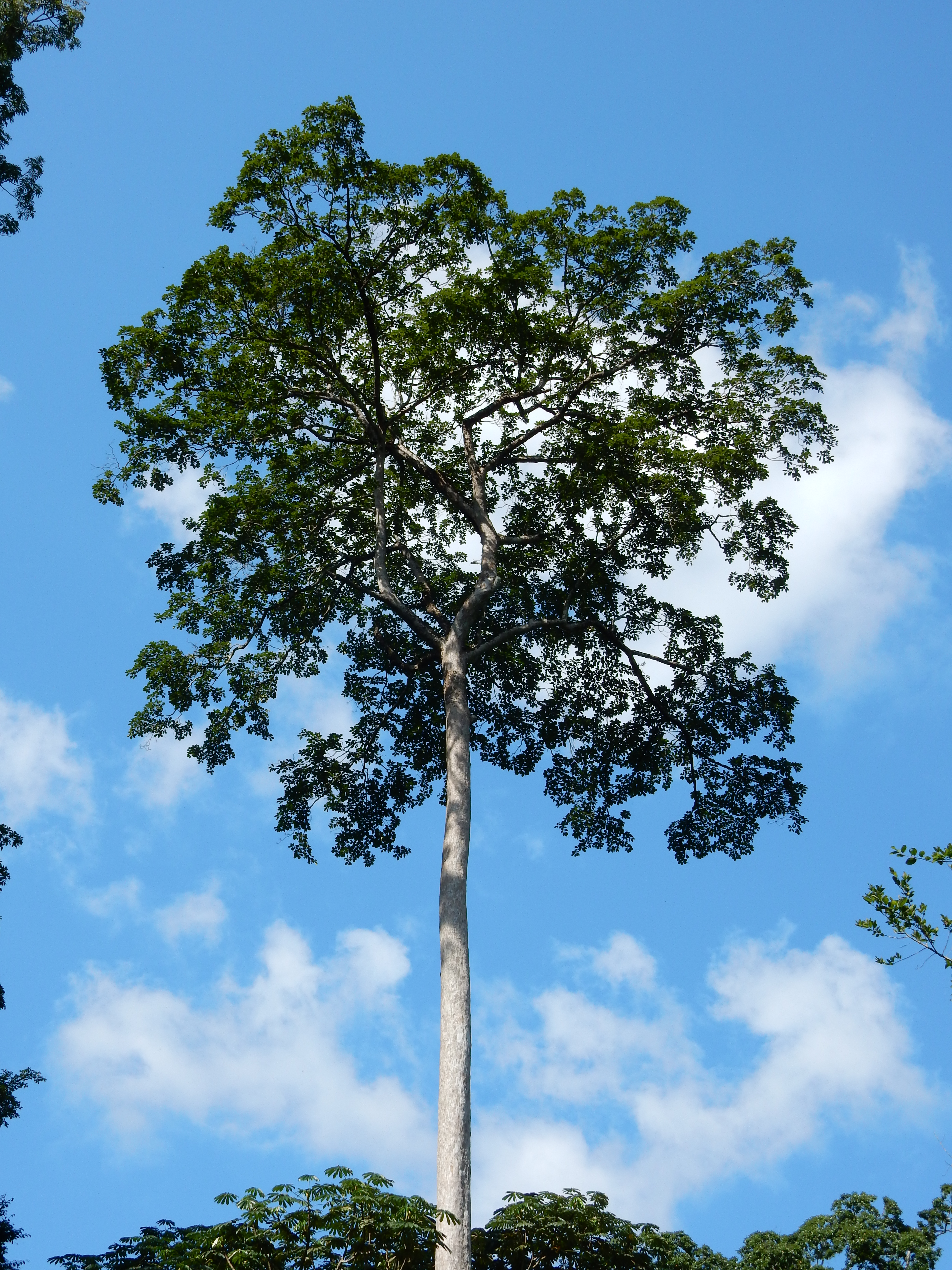 Terminalia superba (Limba) at the Luki Biosphere Reserve in D.R.Congo on February 15th, 2015.